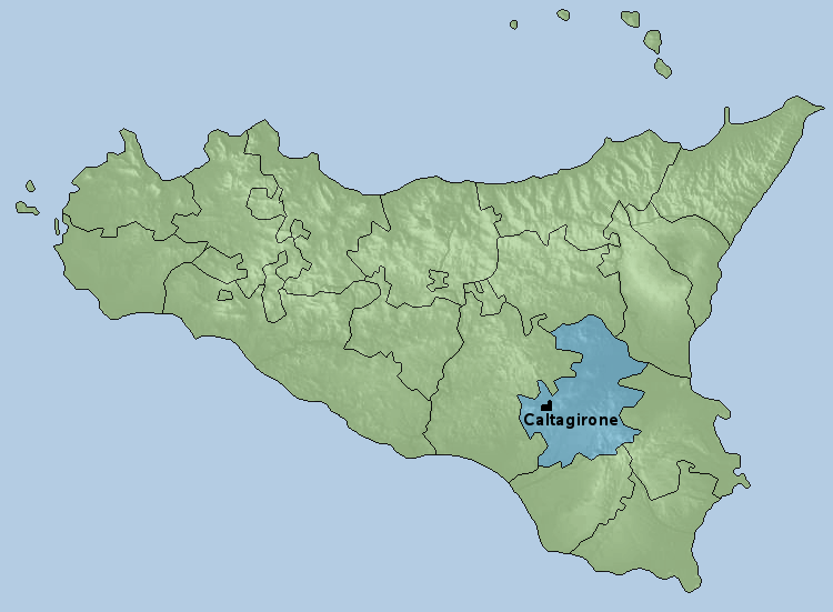 Map of the diocese of Caltagirone (^^: Cathedral of a metropolitan diocese, –^: Cathedral of a suffragan diocese, ^–: Co-cathedral)